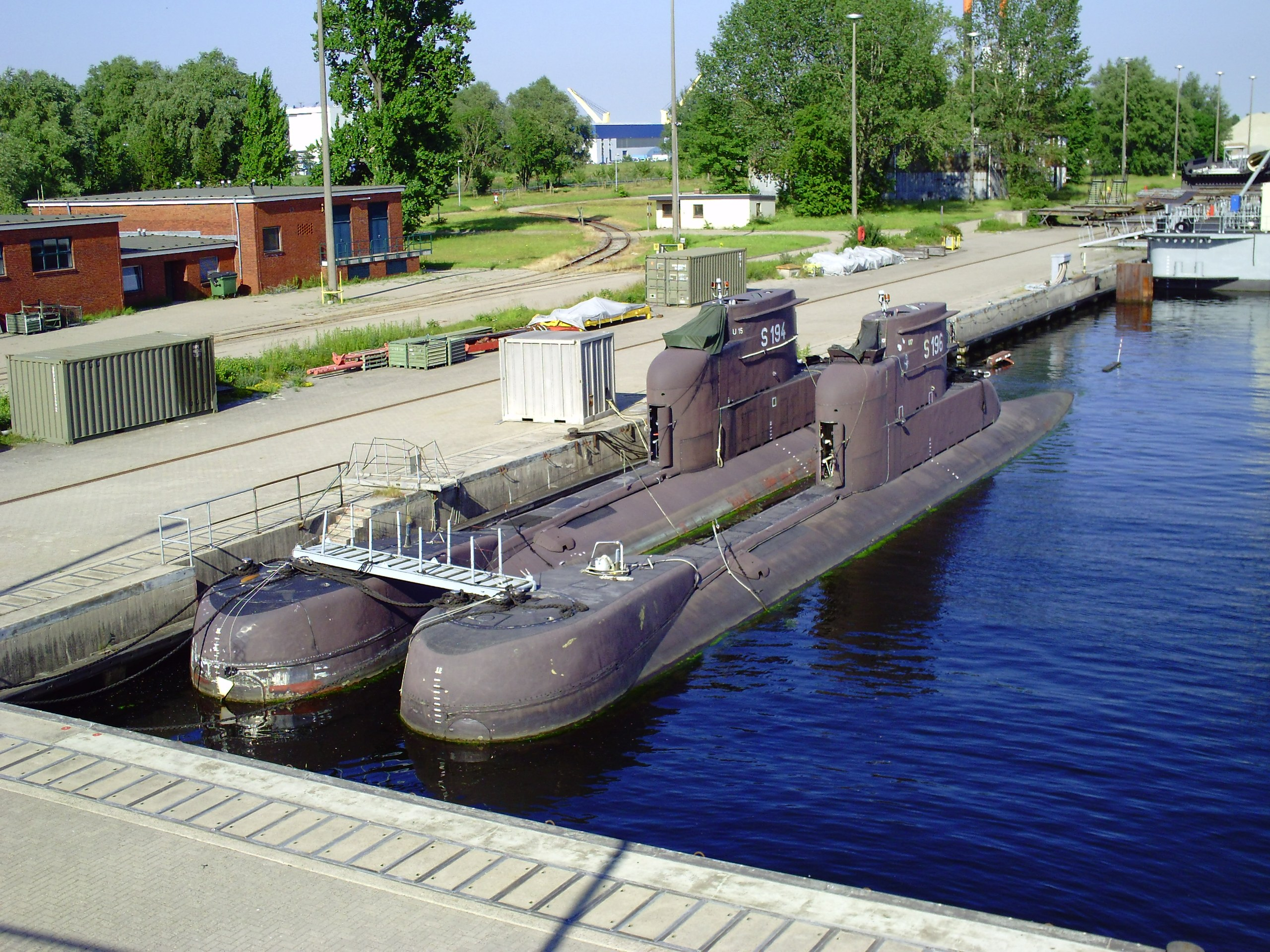 The submarines U 15 (S 194) and U 17 (S 196) of the Type 206 submarine class of the German Navy in Wilhelmshaven